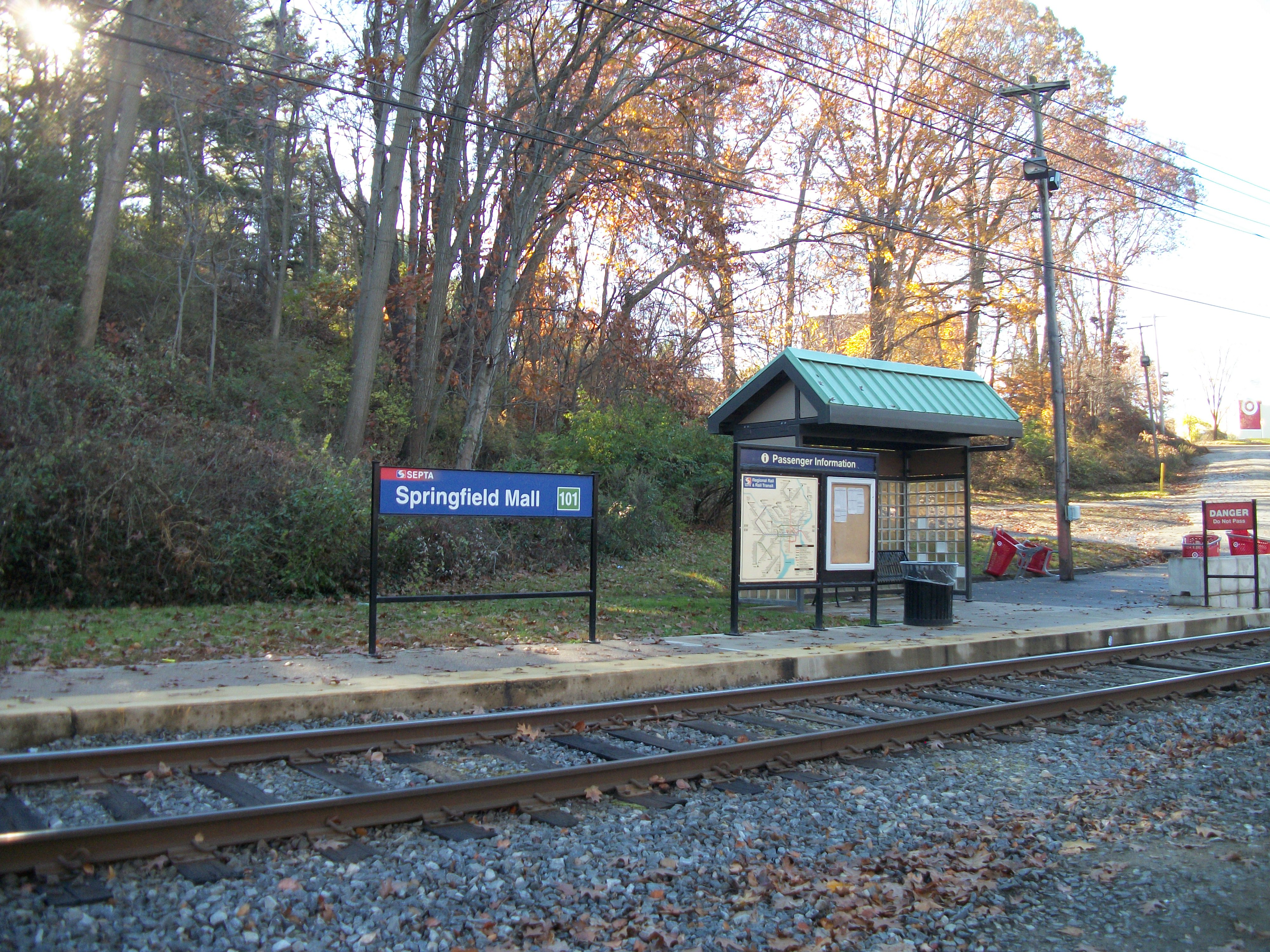 Platform for the Springfield Mall SEPTA Route 101 Trolley stop at the Springfield Mall, in Springfield, Delaware County, Pennsylvania. The station was originally named Sproul Road before the mall was built.